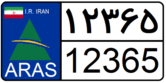 Aras Free Trade Zone License Plate